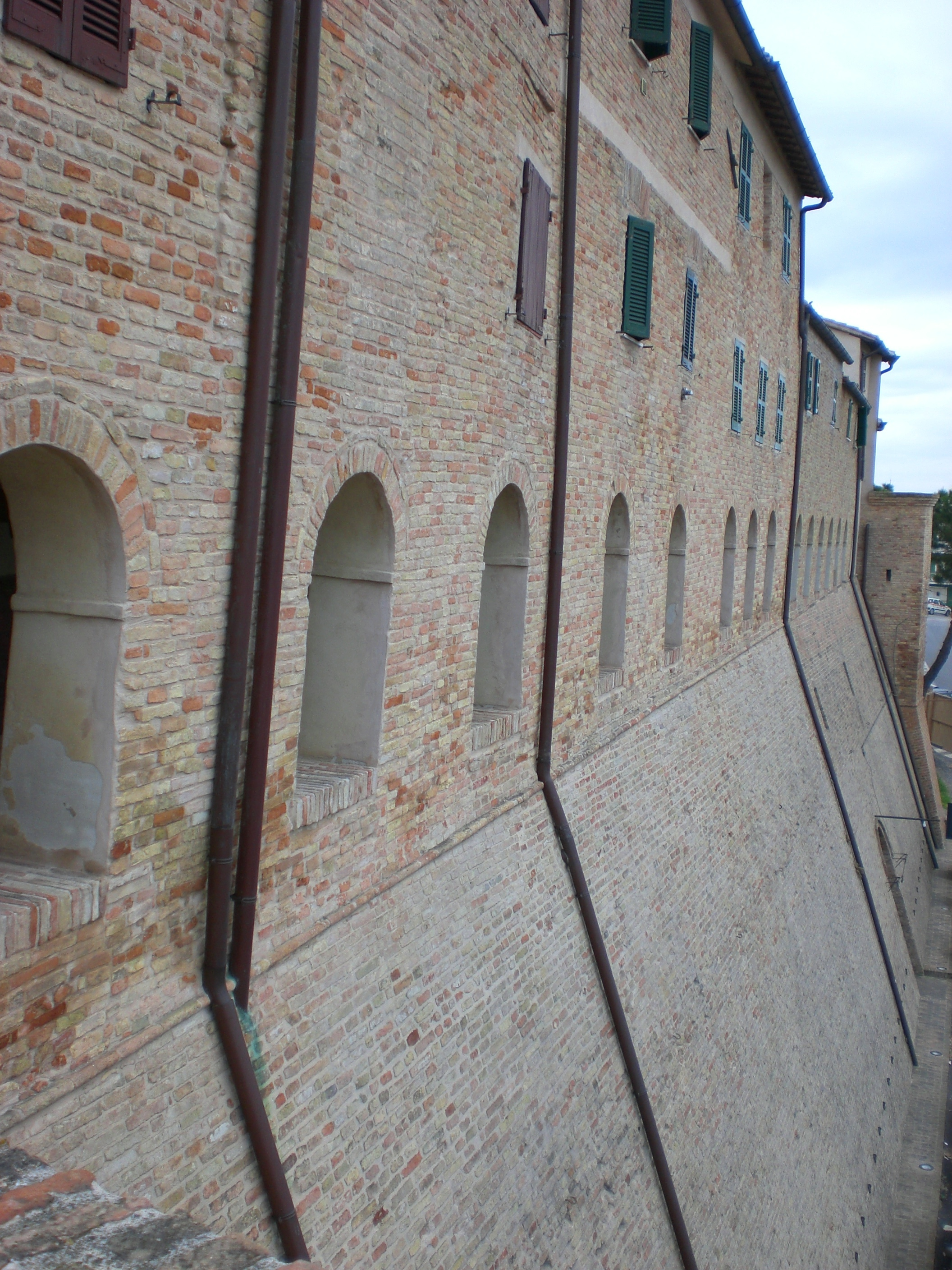 Morro d'Alba, Old Town's Walls